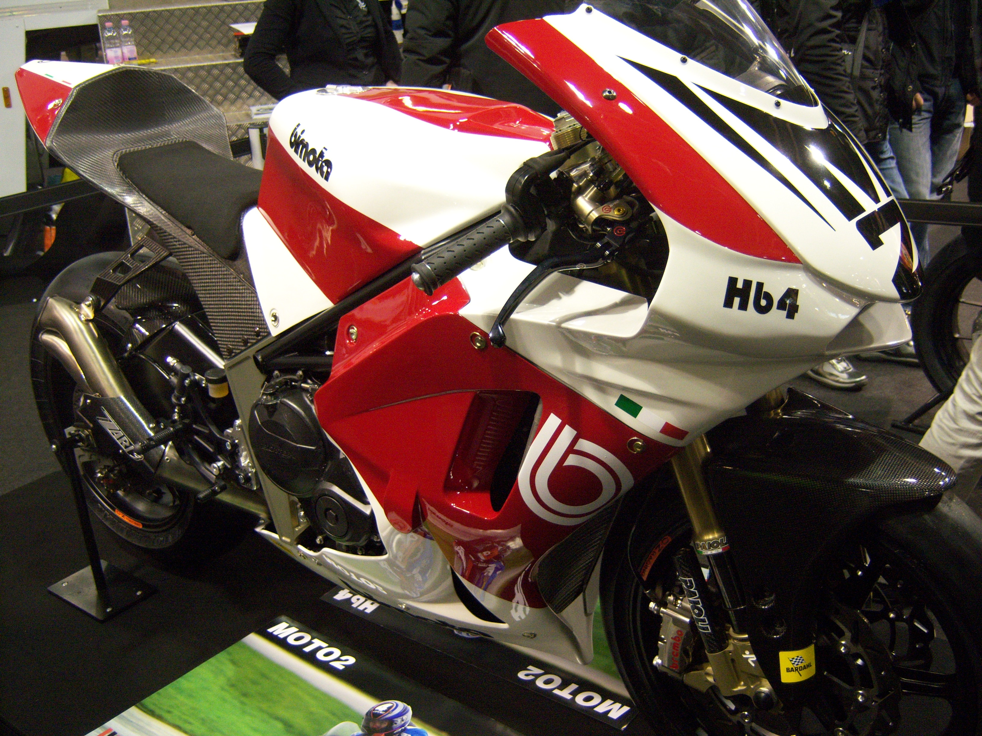 Bimota HB4 at Verona motorshow 2010